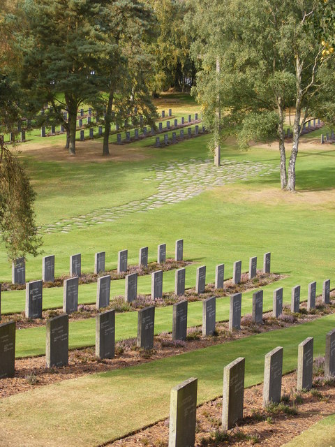 Rest in Peace A peaceful spot on Cannock Chase. The German War Cemetery.